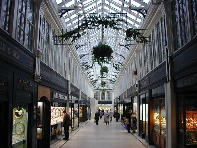 Argyle Arcade. A veritable Aladdin's Cave of jewellery shops